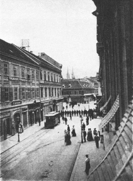 Mesnička-Frankopanska-Ilica: odred vojske zatvara Ilicu prilikom prosvjeda protiv Khuena 1902.